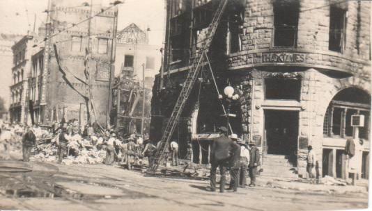 Photo postcard of rubble of the Los Angeles Times Building after the 1910 bombing.